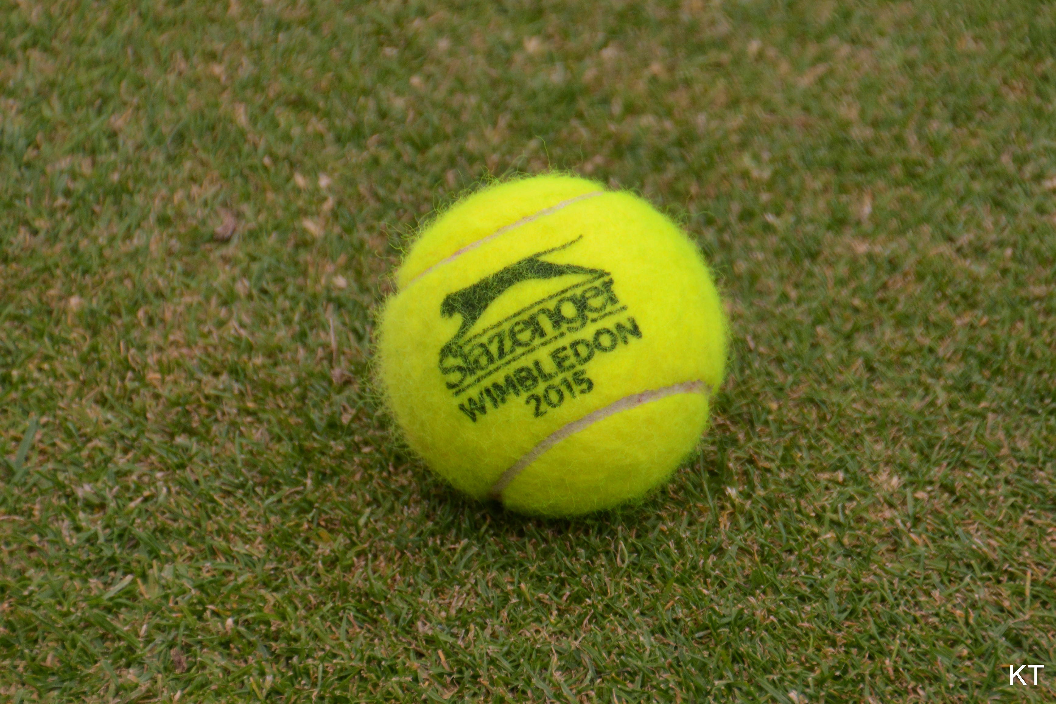 Aegon Championships, Queen's Club, June 2015.